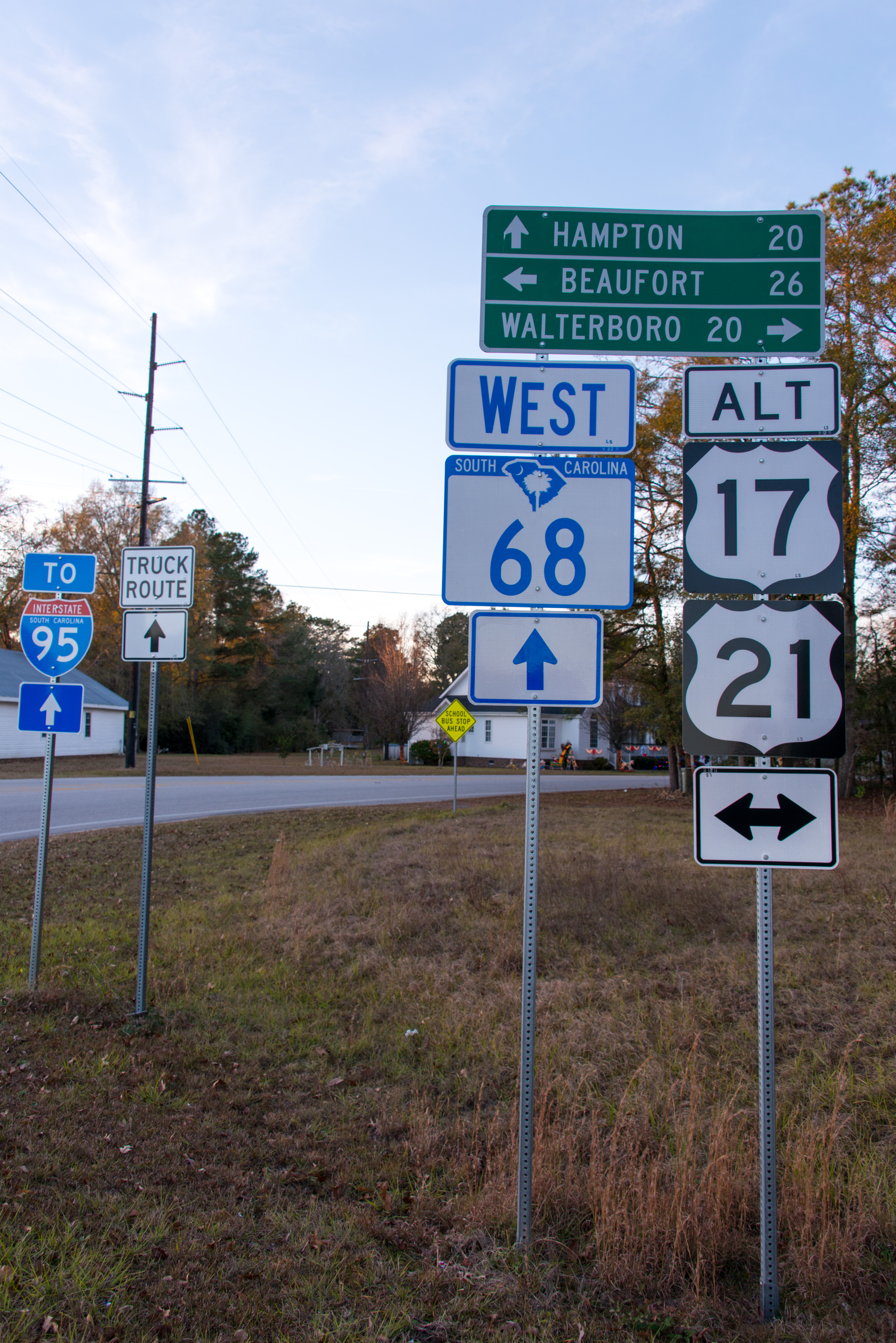 Begin of SC 68 in Yemassee, South Carolina.